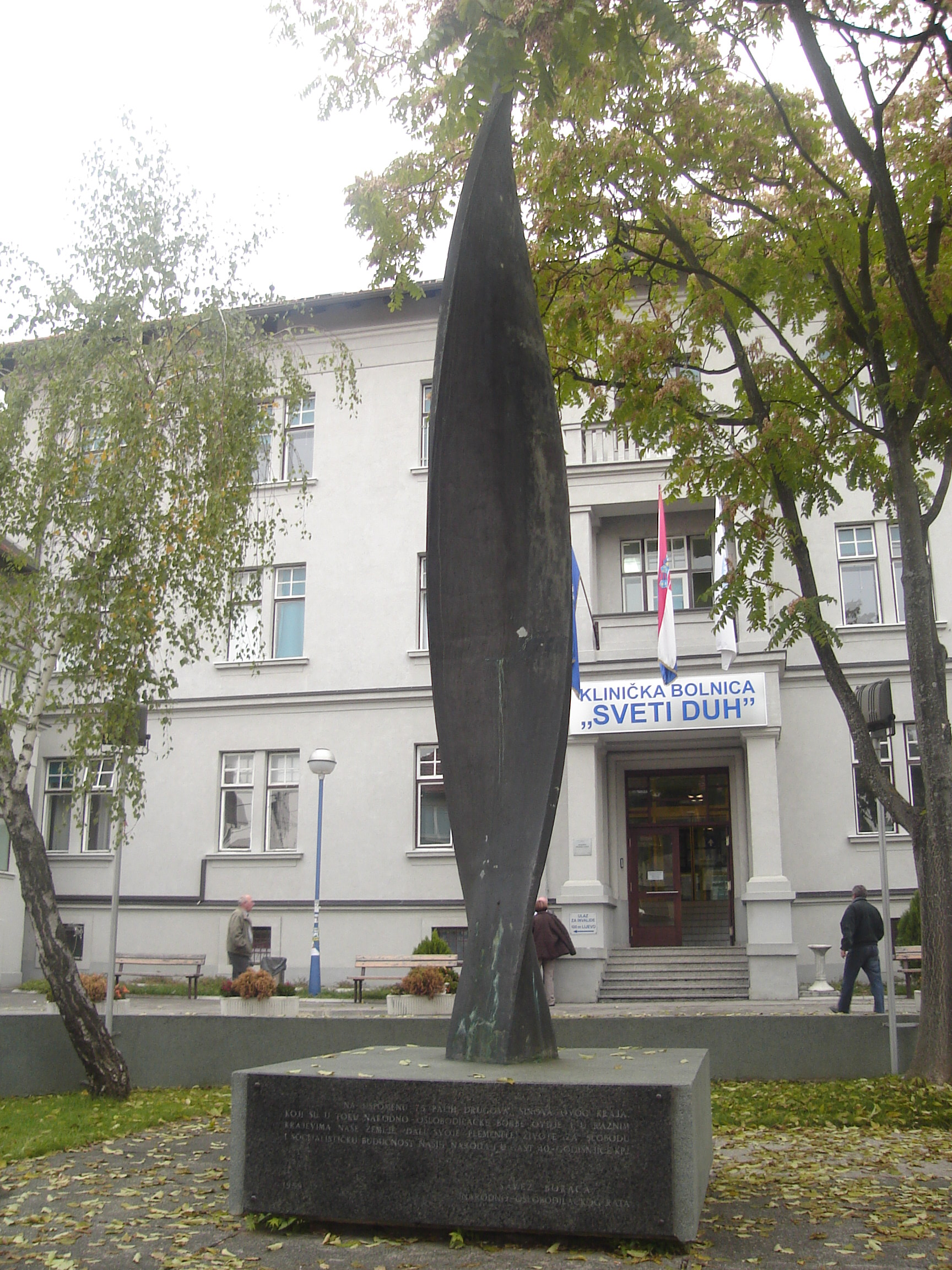 "Flame of the Revolution" monument in Črnomerec, Zagreb.